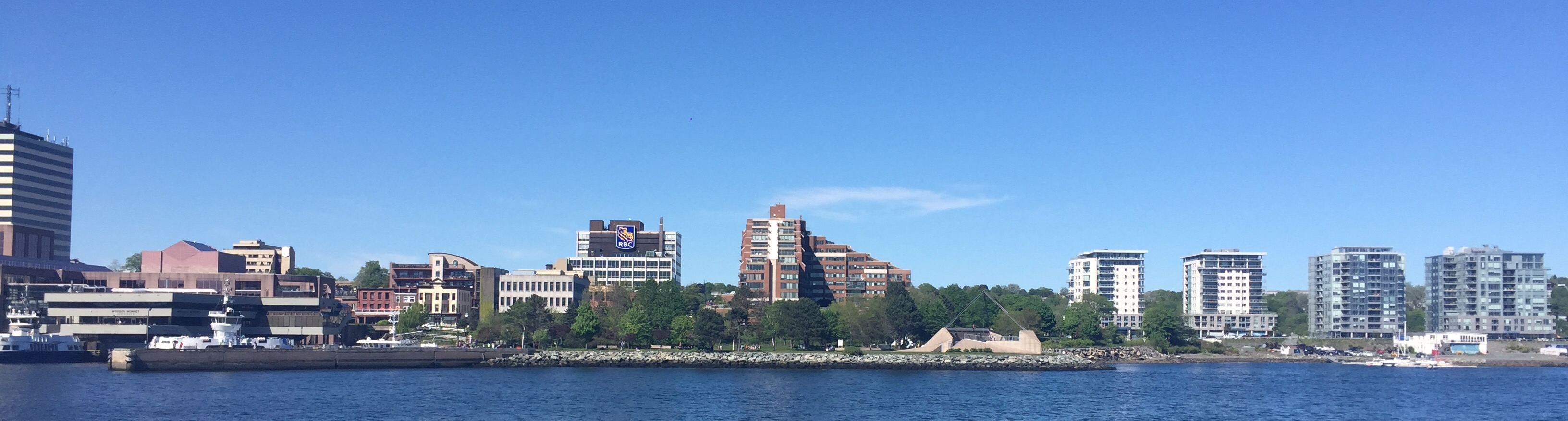 Dartmouth skyline from the Halifax ferry.